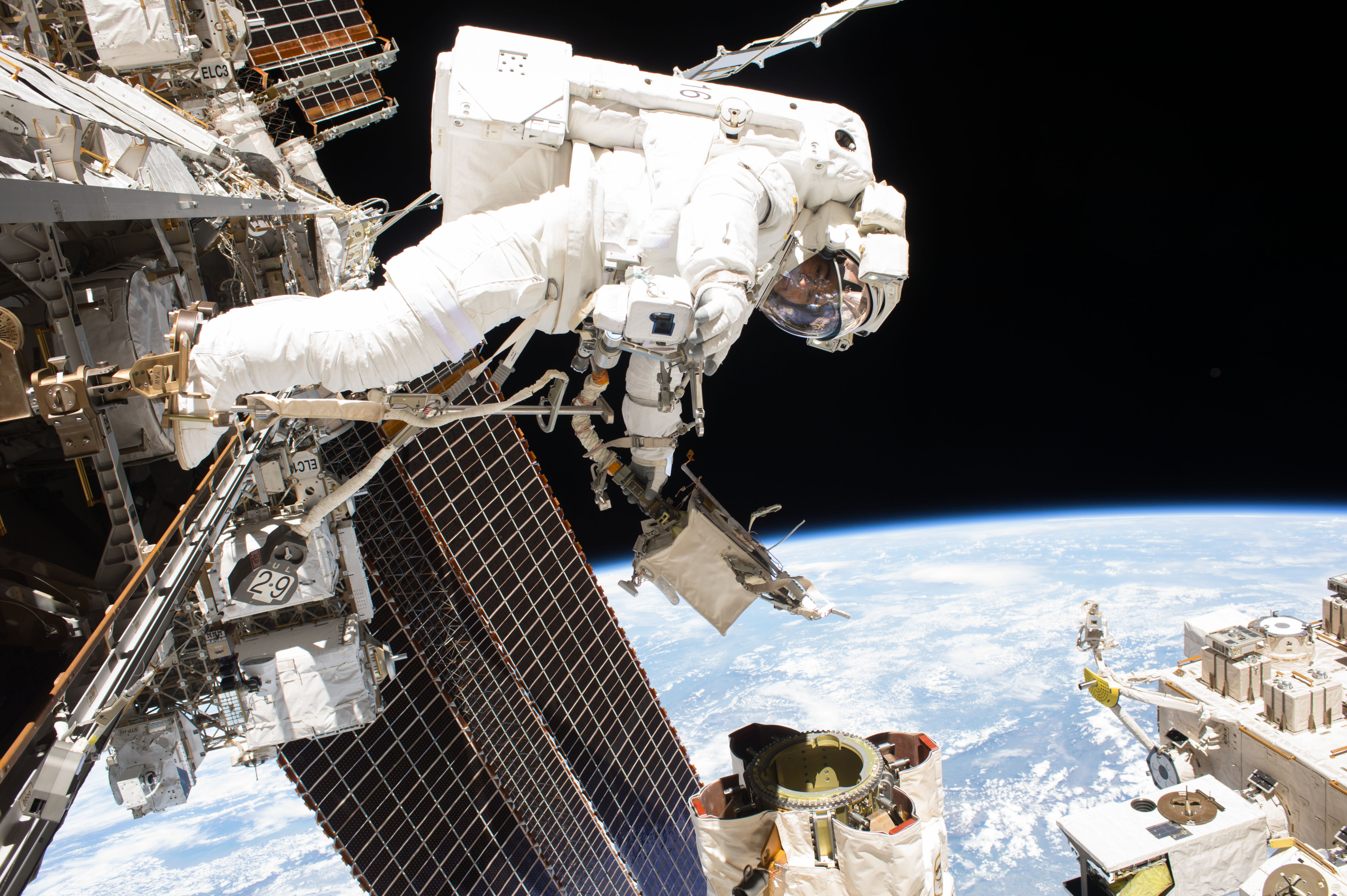 Astronaut Mark Vande Hei is pictured attached to the outside of the space station during a spacewalk to lubricate the latching end effector on the tip of the Canadarm2 on Oct. 10, 2017.